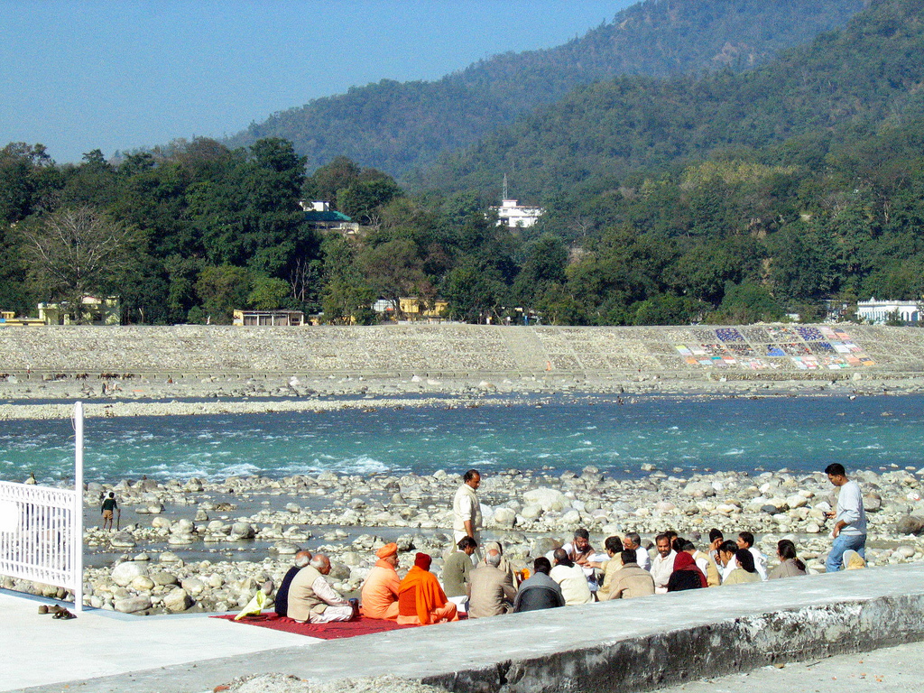 Group gathers near the Ganga. 0oo..